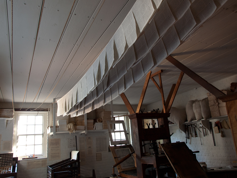 Lines of drying newspapers off an eighteenth century printing press.